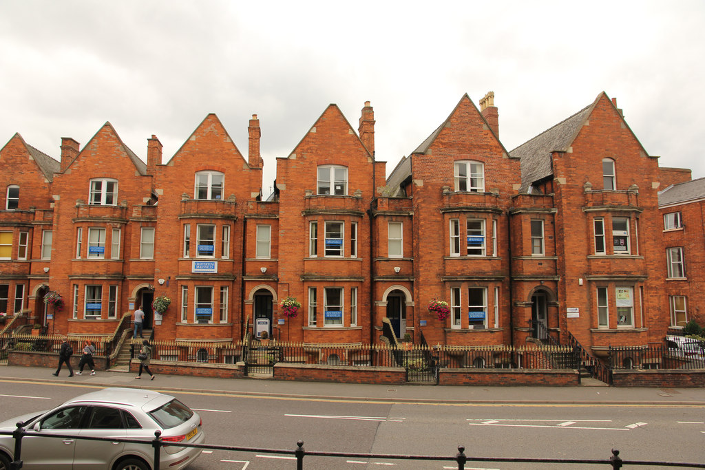 West Parade 15 to 25 West Parade, by prolific Lincoln architect William Watkins for local chemist and property owner Charles Knowles Tomlinson in 1885 originally town houses, now offices.